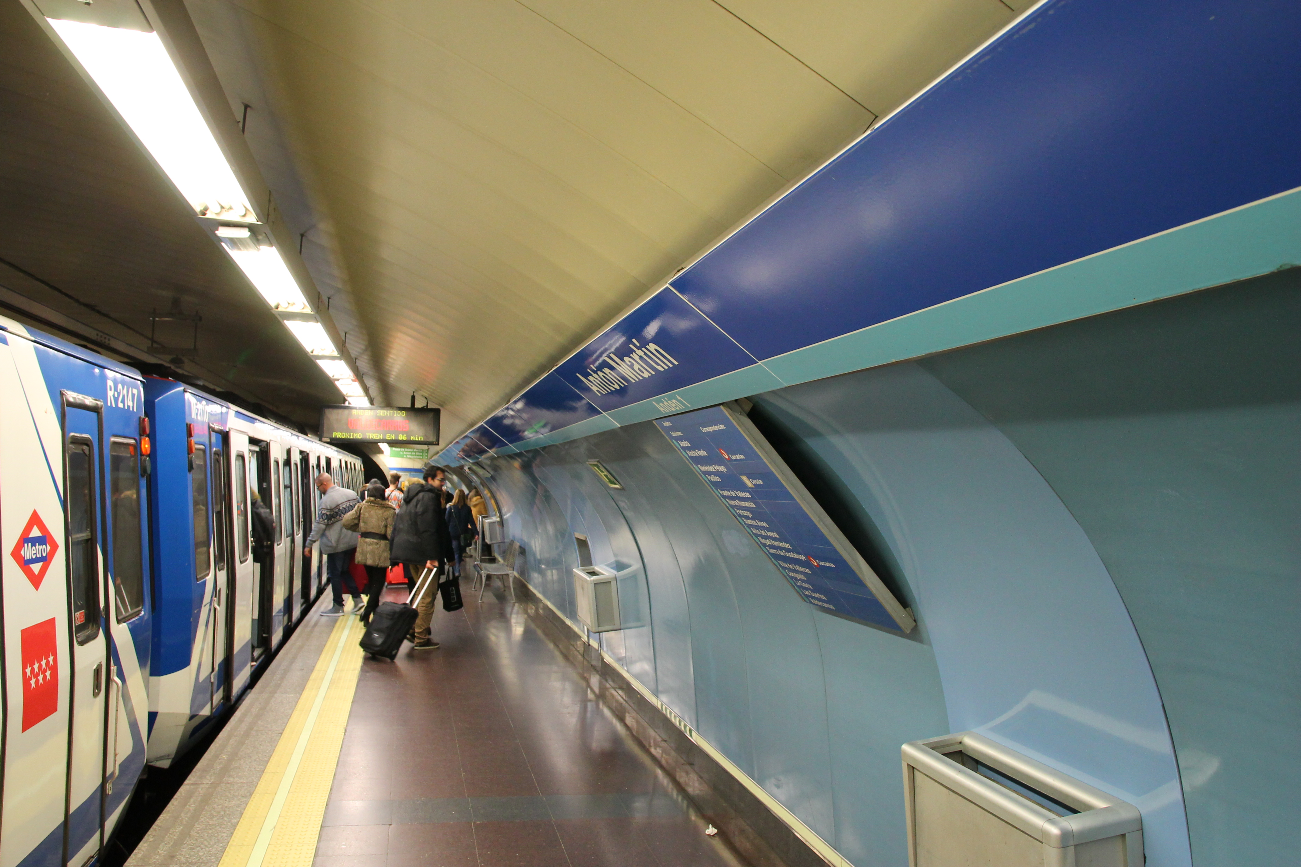 Antón Martín station. Madrid Metro.